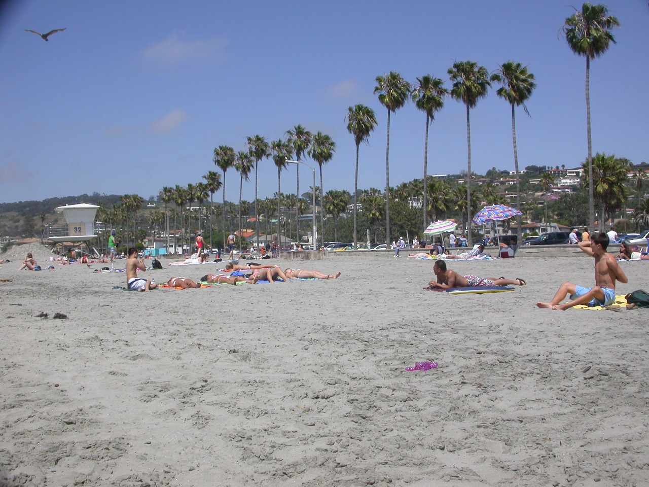 La Jolla Shores, 2004